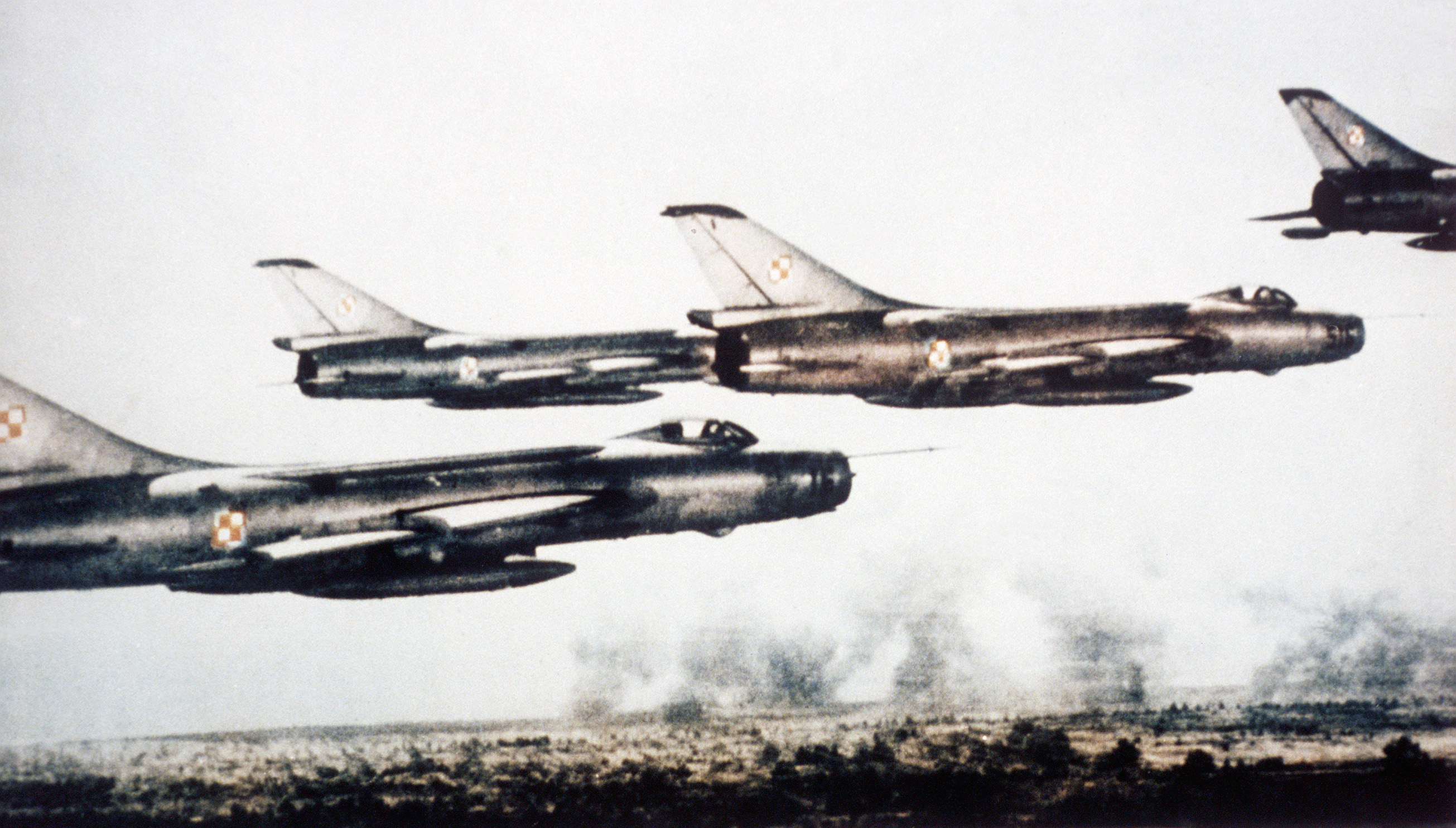 A right side view of three Polish Su-7 Fitter-A aircraft in flight.